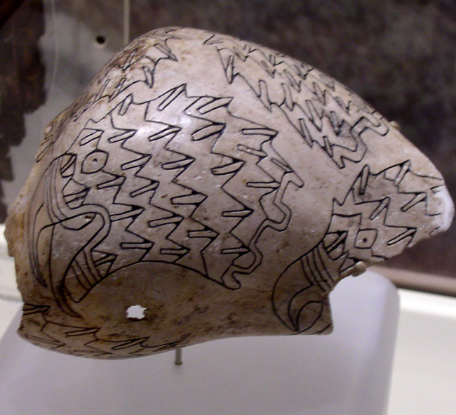 Engraved shell design from Spiro Mounds Oklahoma.